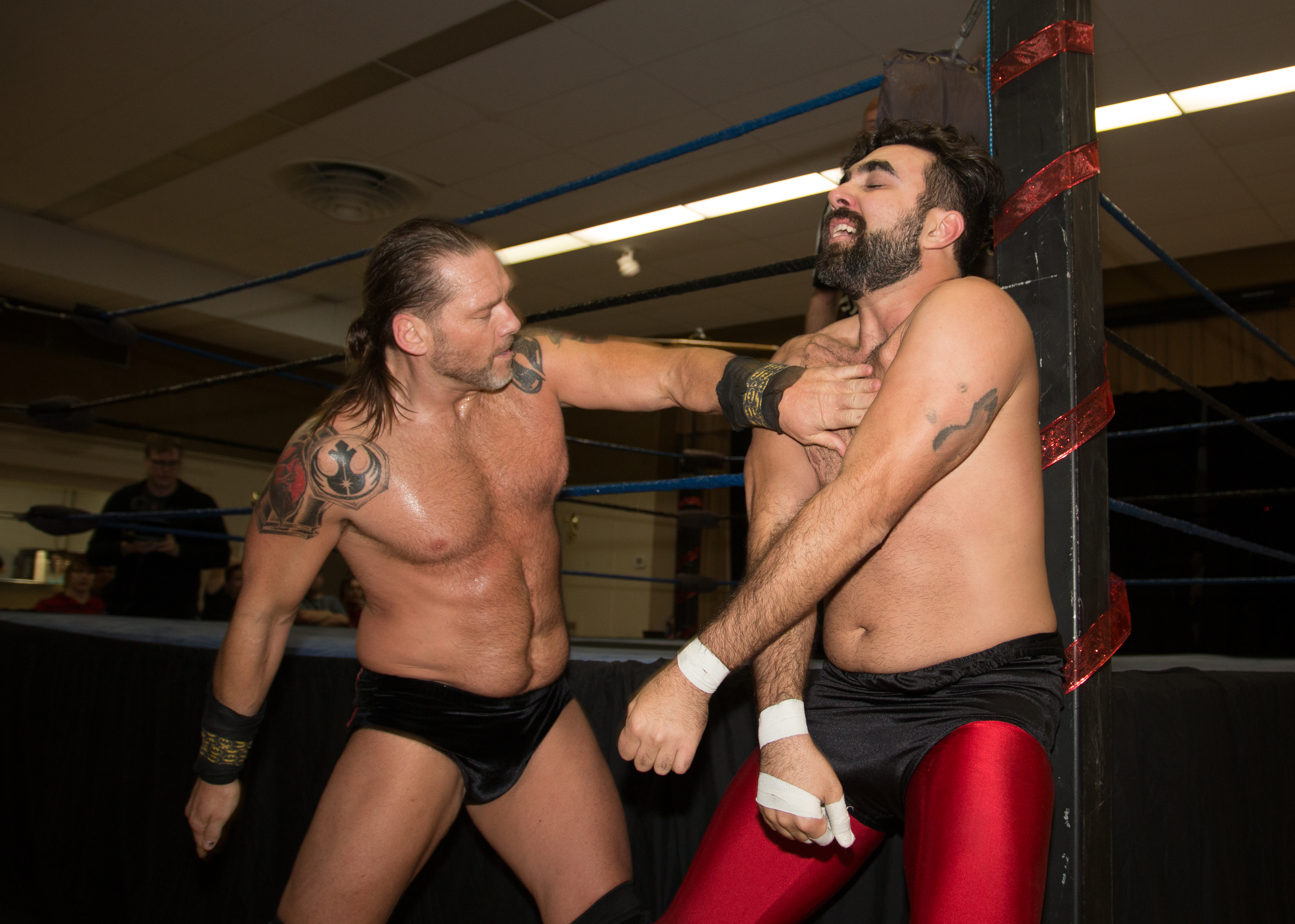 Independent pro wrestler Johnny Devine (left) chops Buck Gunderson during a match in Oshawa, ON